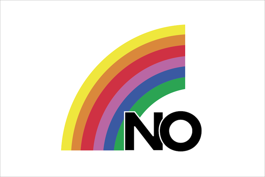 Flag of the NO side during the Chilean national plebiscite, 1988.